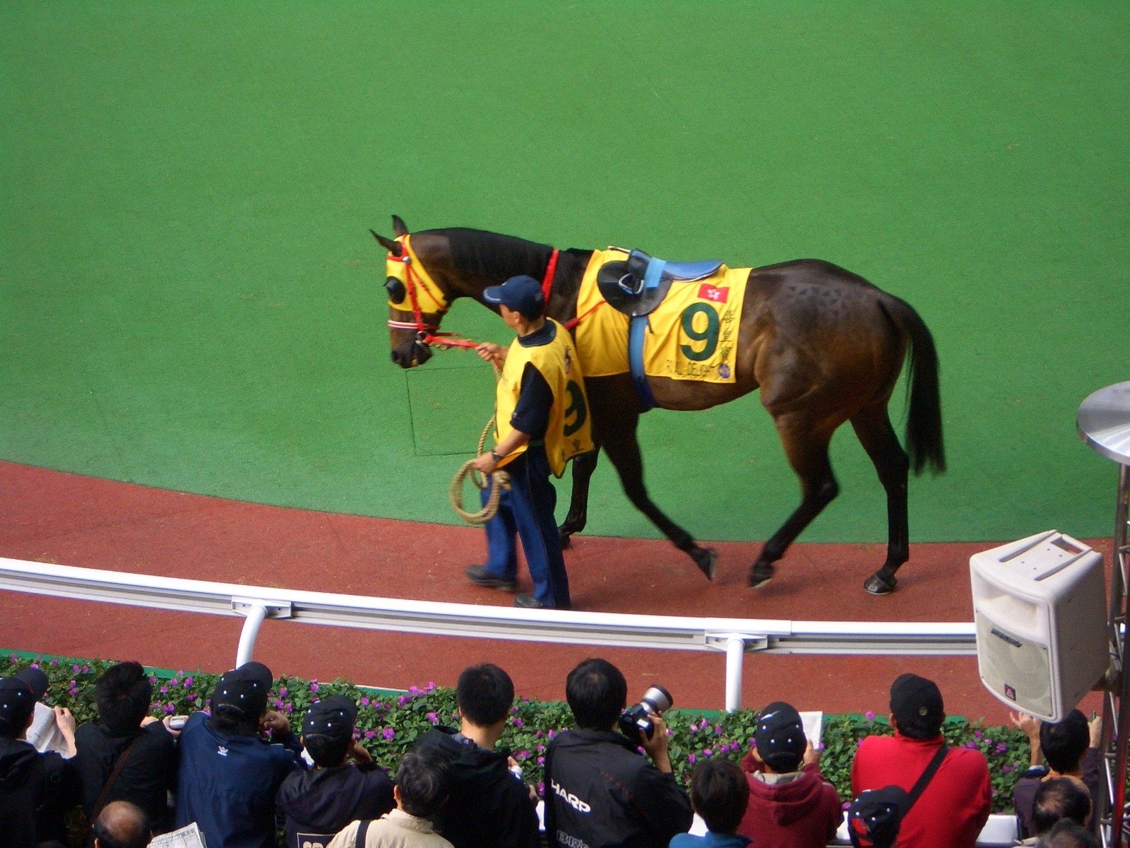 Royal Delight (Chinese:喜皇寶), started at Hong Kong Spirit